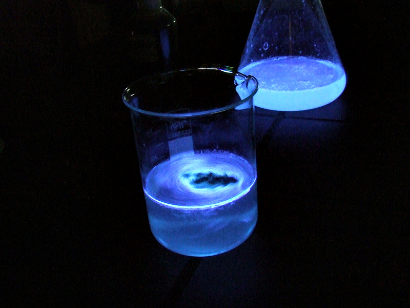 Luminol and Hemoglobin. Luminol glows in an alkalic solution when you add Hemoglobin and H2O2